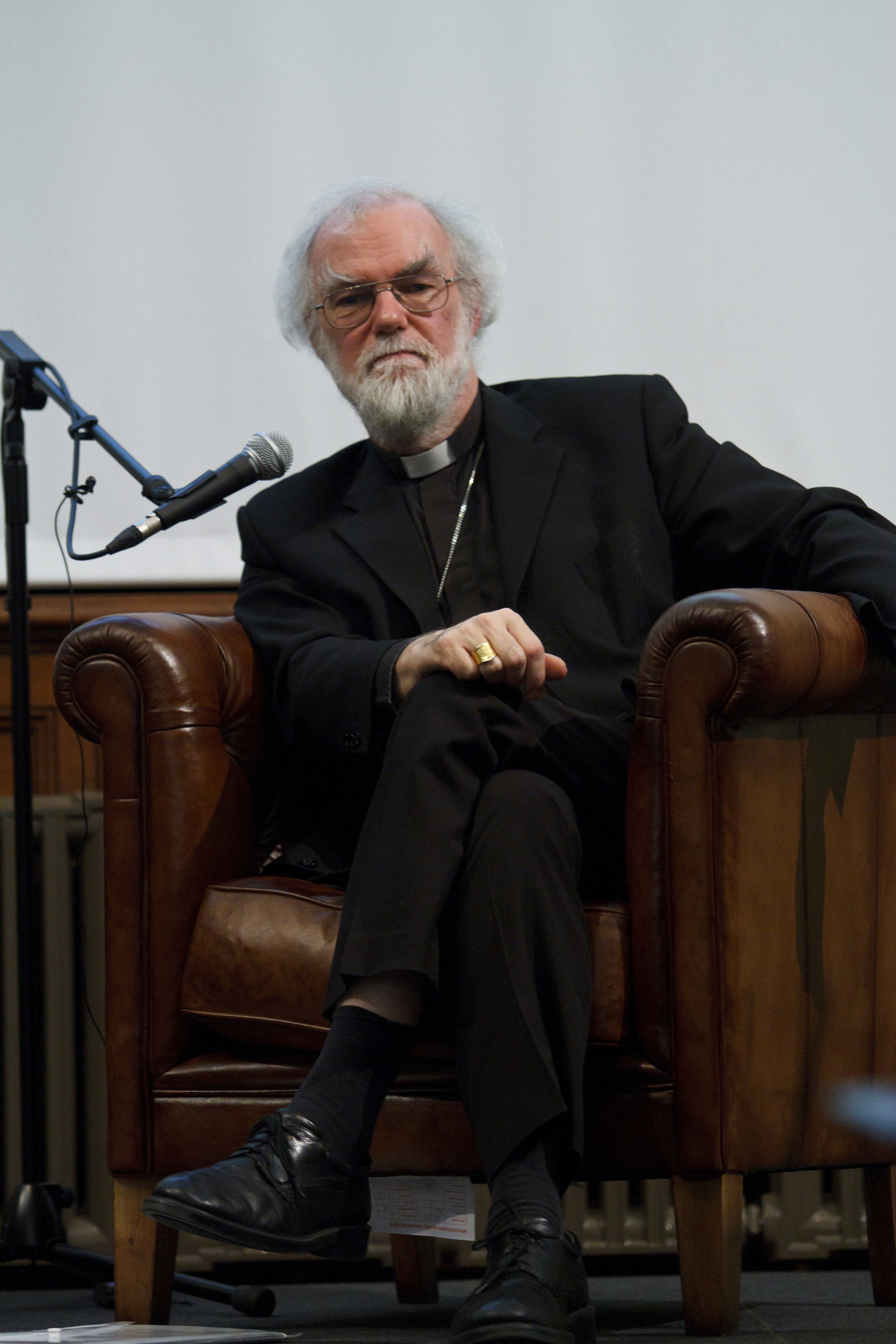 Archbishop of Canterbury, DR Rowan Williams visits The National Assembly for Wales, Cardiff, 26 March 2012.